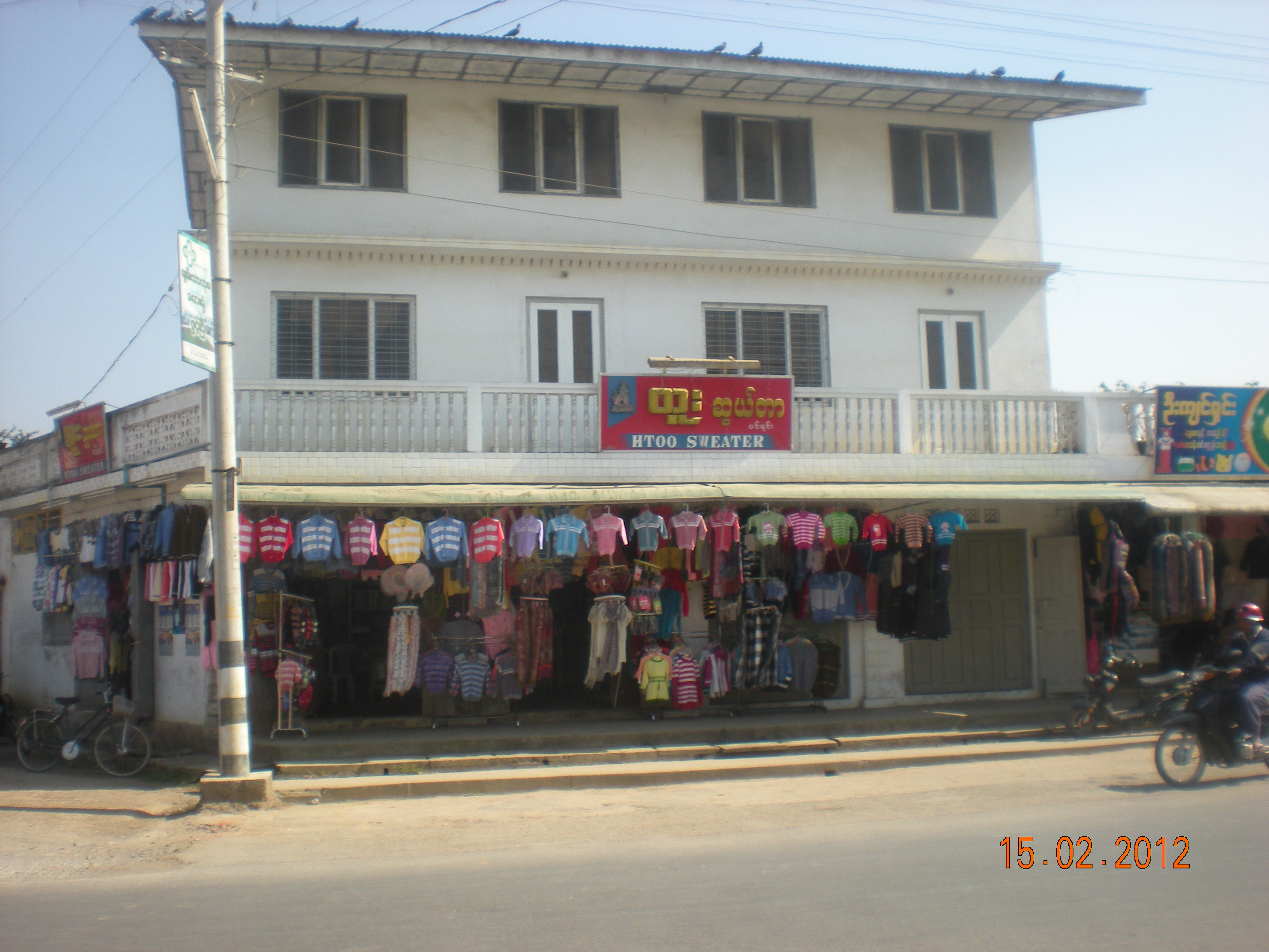 Local shop